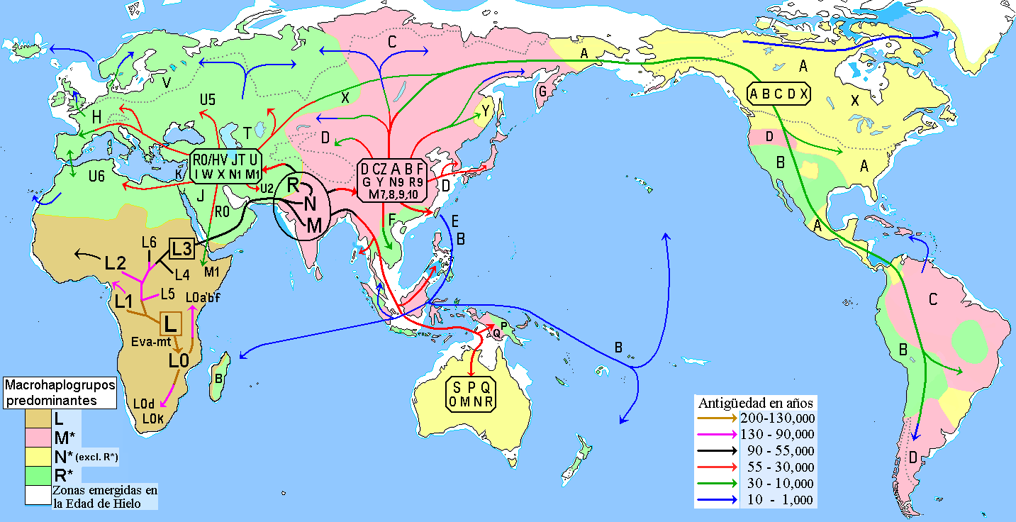 Hypothesized map of human migration based on mitochondrial DNA.English version: Human migrations and mitochondrial haplogroups.PNG